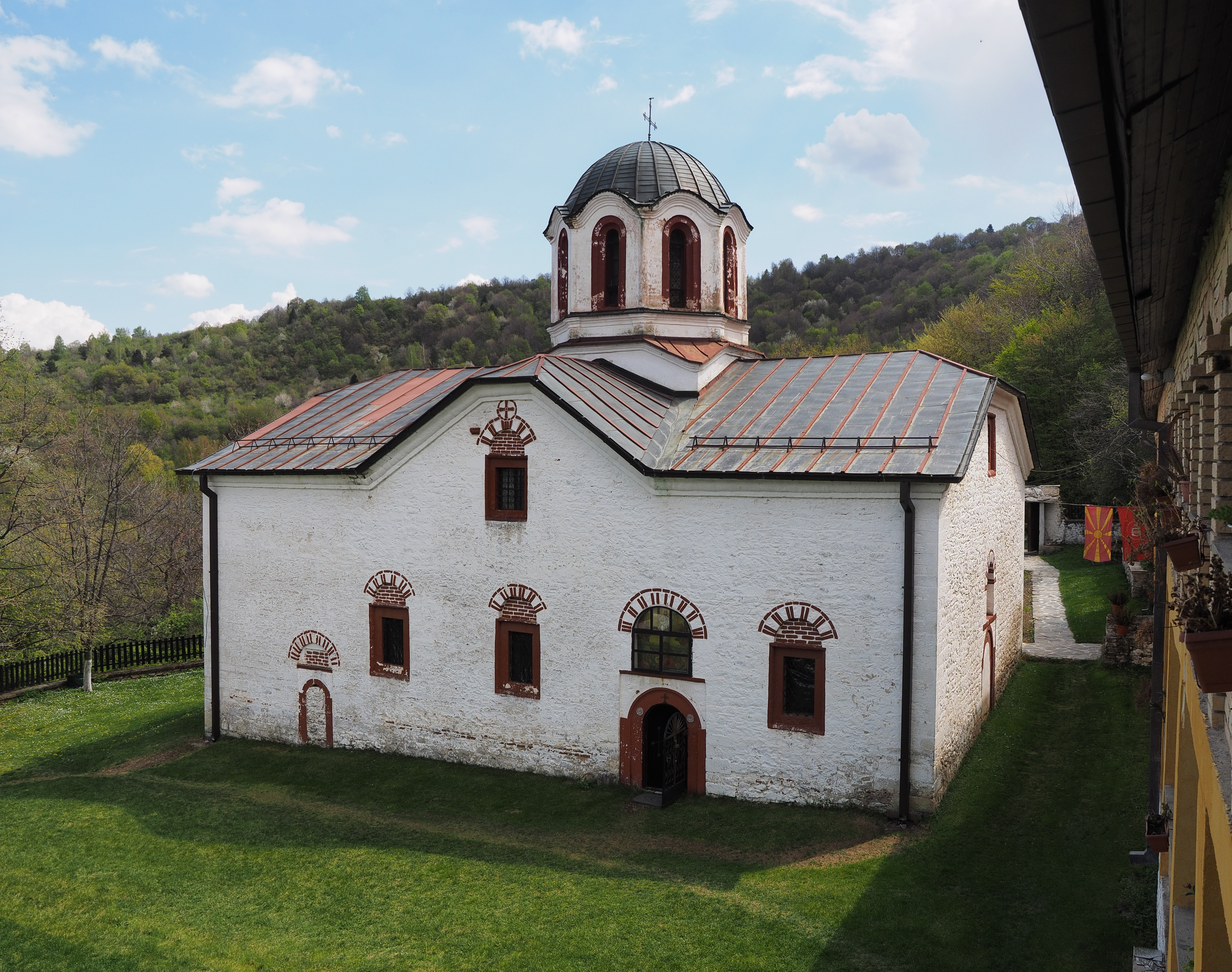 Monastery Bukovo (Bitola), Macedonia